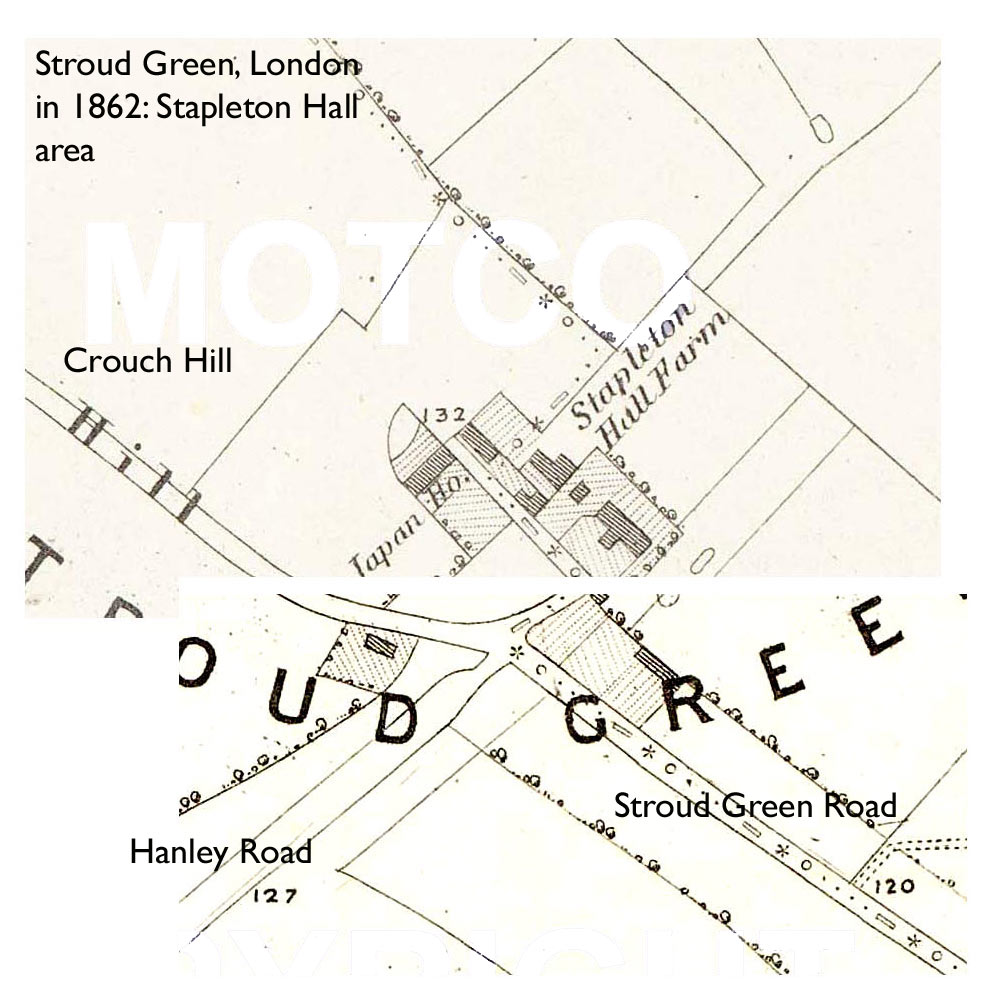 For more information about Stapleton Hall see the Wikipedia pages about Stroud Green This map is taken from Edward Stanford's 24 plate 6 inch to the mile Library Map of London & Its Suburbs, which was first published in 1862. N.B. The present-day street names are given in Gill Sans type.